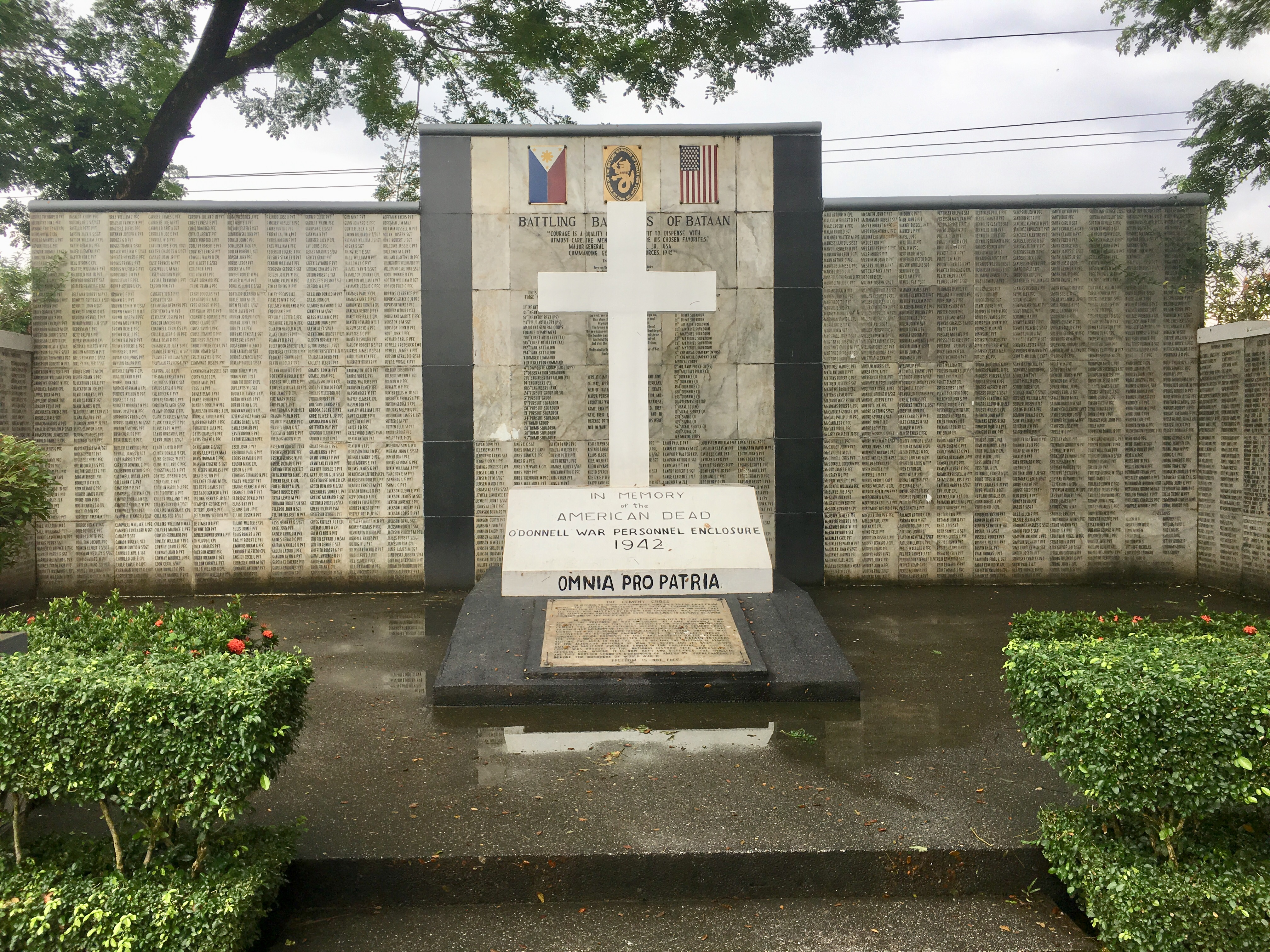 Omnia Pro Patria in Capas National Shrine, a cross dedicated to fallen american soldiers in Bataan during Japanese occupation.